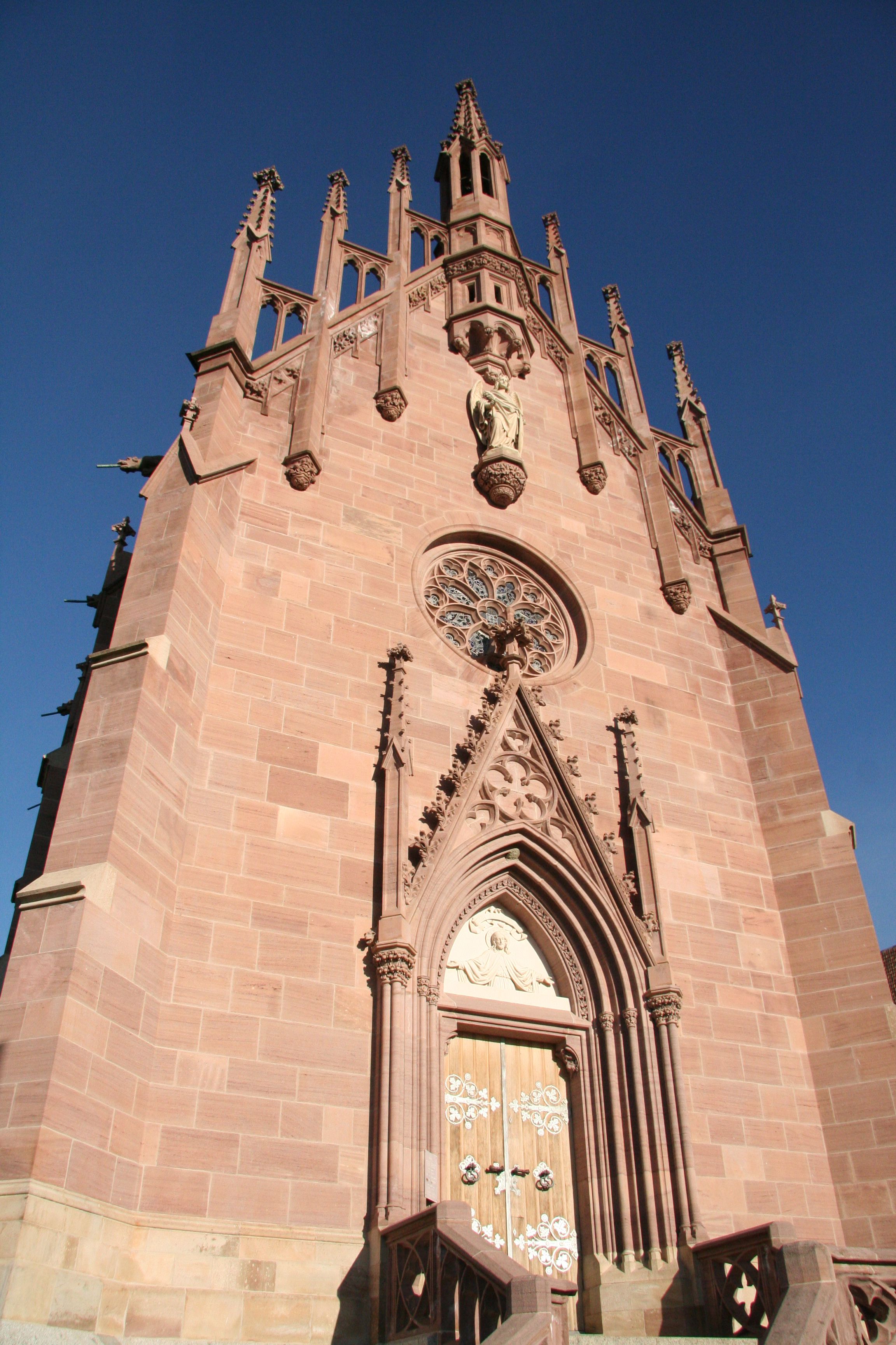 Mausoleum of Archduke Johann of Austria in Schenna, South Tyrol